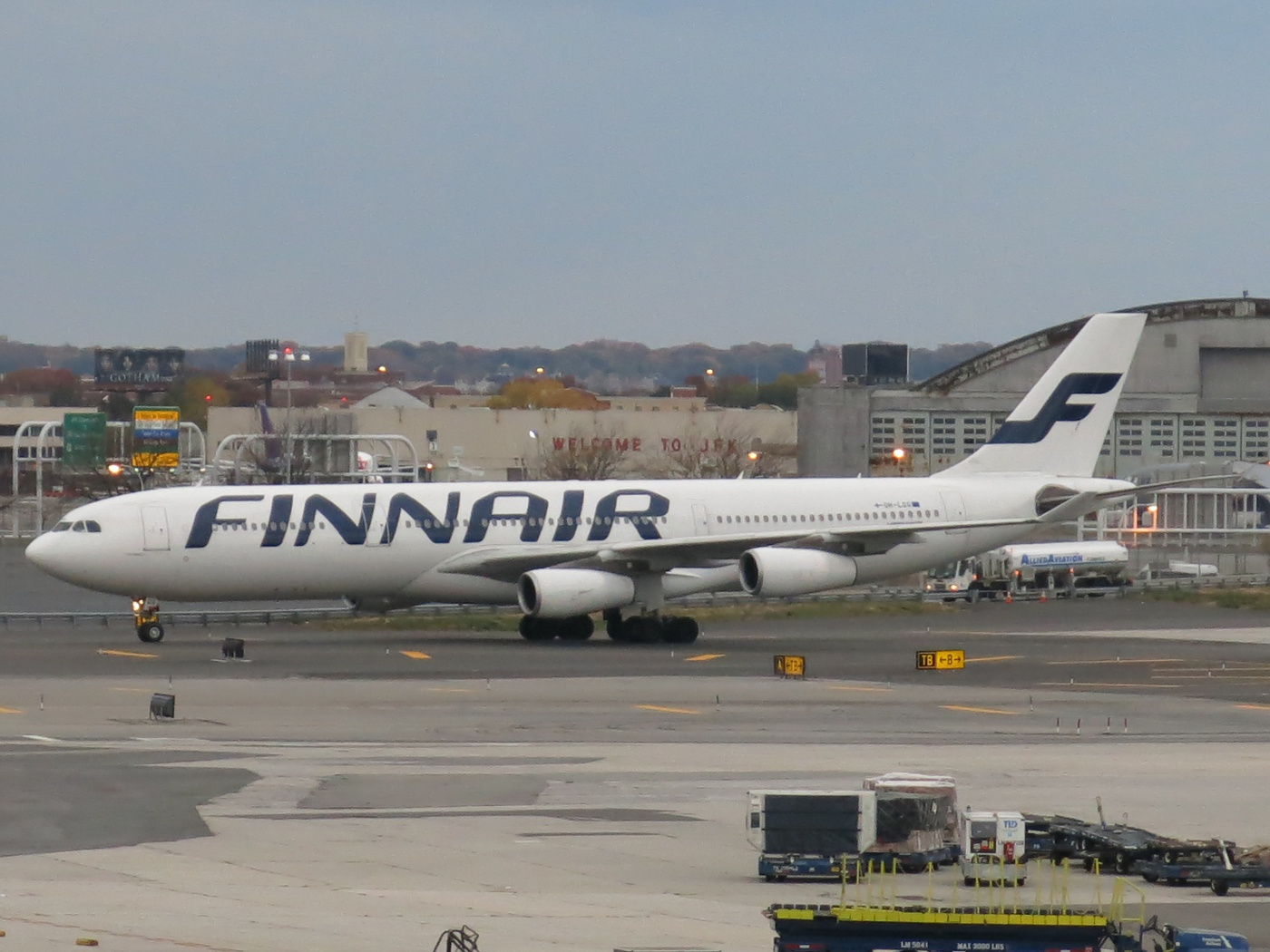 A Finnair Airbus A340-313X aircraft, registration OH-LQG, has just completed Finnair Flight 5 from Helsinki-Vantaa Airport to John F. Kennedy International Airport, and is taxiing to Terminal 8 (to the left of the photographer) over the JFK Expressway.